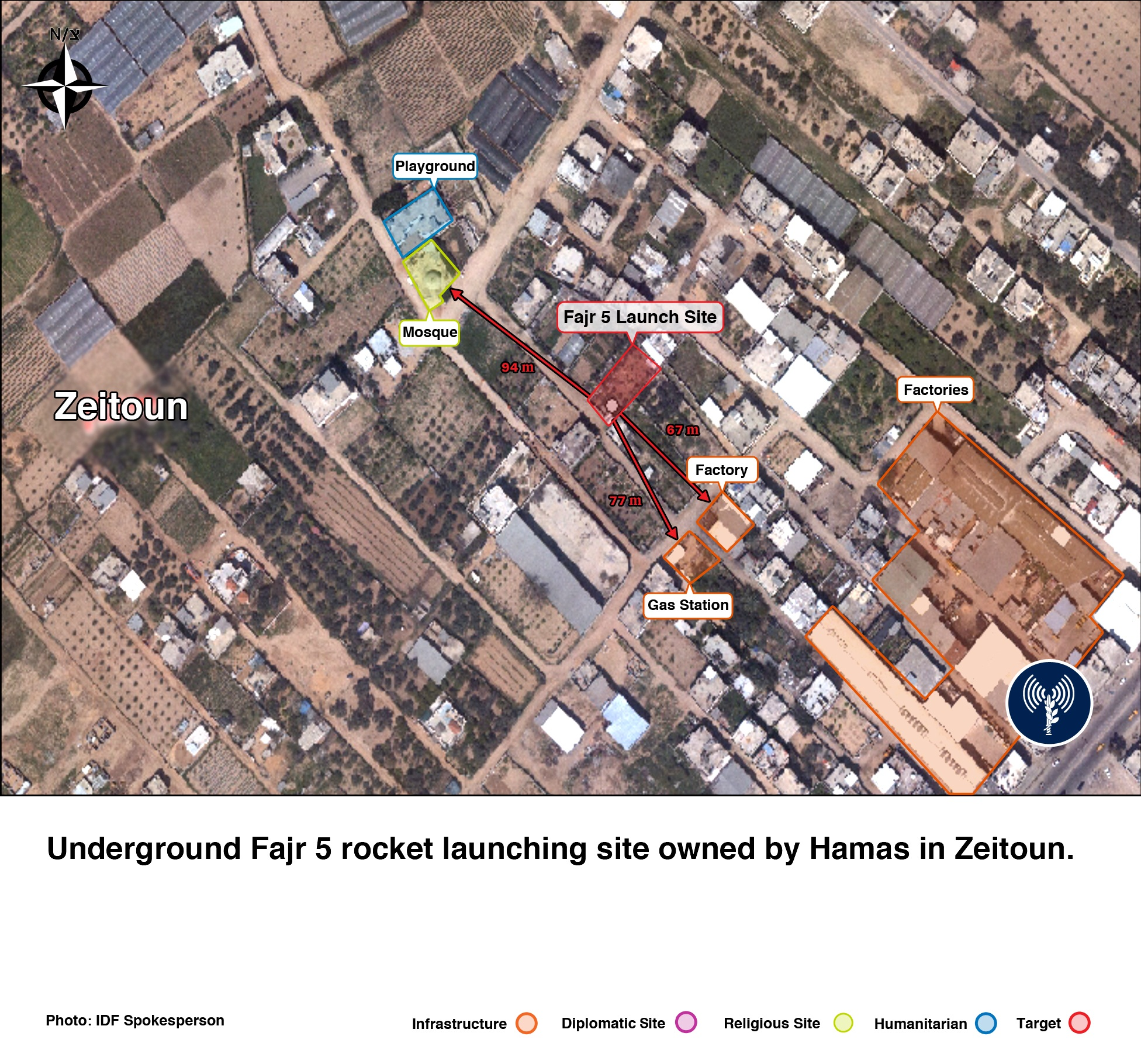 A long-range rocket launch site owned by Hamas in the Zeitoun neighborhood in Gaza.